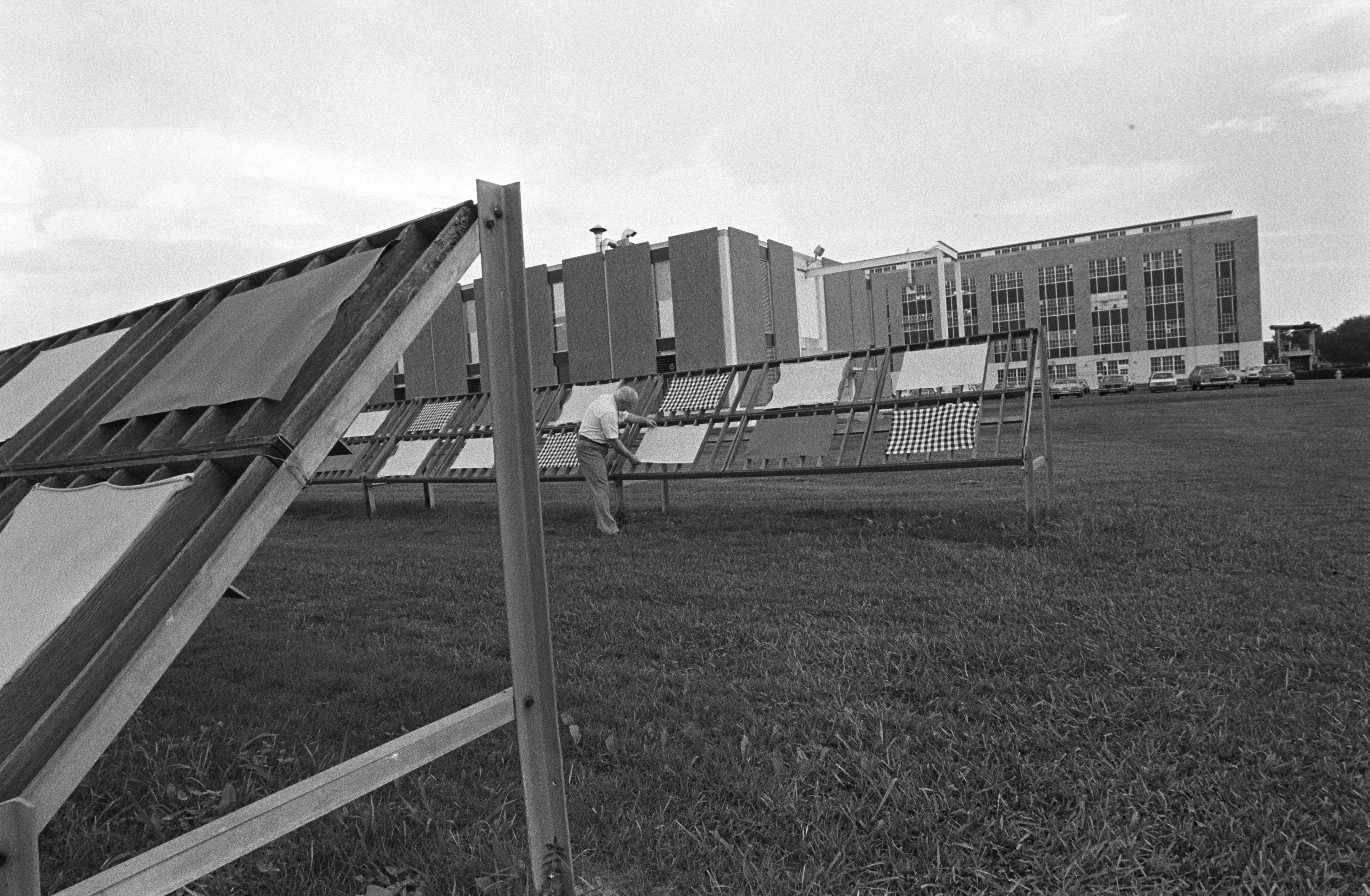 Cotton samples are dried outside to test their durability and color fastness at the Southern Regional Research Center in New Orleans, Louisiana in August 1985. Photo courtesy National Archives and Records Administration.